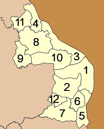 Map of Nakhon Phanom province, Thailand, with the districts (Amphoe) numbered. Mueang Nakhon Phanom (อำเภอเมืองนครพนม) Pla Pak (อำเภอปลาปาก) Tha Uthen (อำเภอท่าอุเทน) Ban Phaeng (อำเภอบ้านแพง) That Phanom (อำเภอธาตุพนม) Renu Nakhon (อำเภอเรณูนคร) Na Kae (อำเภอนาแก) Si Songkhram (อำเภอศรีสงคราม) Na Wa (อำเภอนาหว้า) Phon Sawan (อำเภอโพนสวรรค์) Na Thom (อำเภอนาทม) Wang Yang (King Amphoe) (กิ่งอำเภอวังยาง)